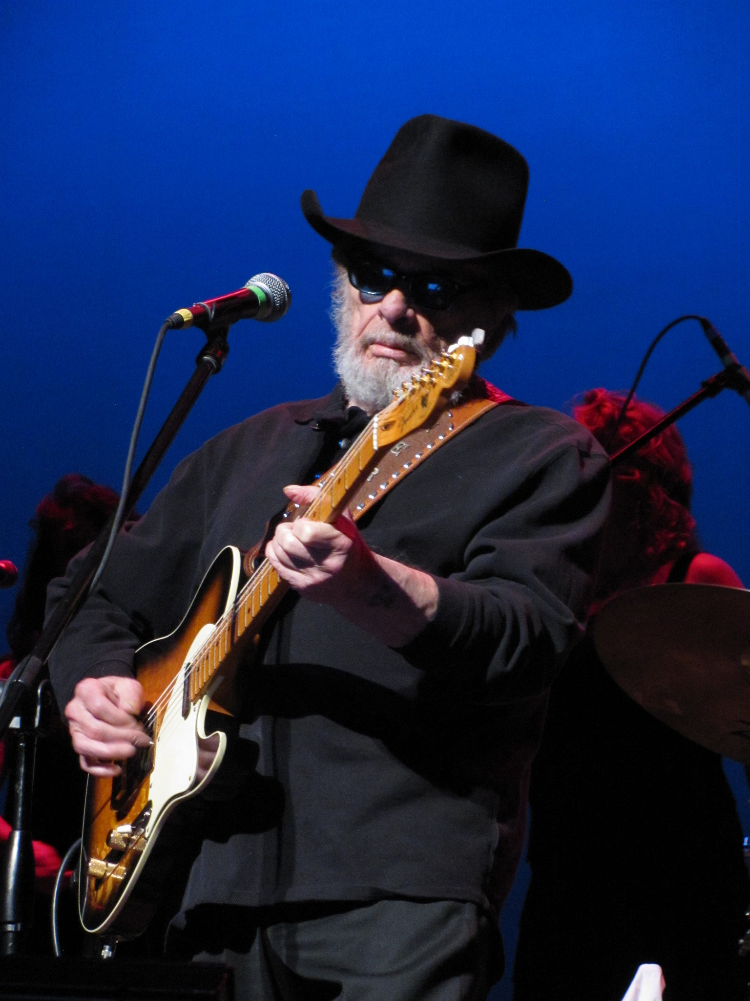 Merle Haggard performing at the Classic Center in Athens, Georgia, during Valentine's Day 2013.